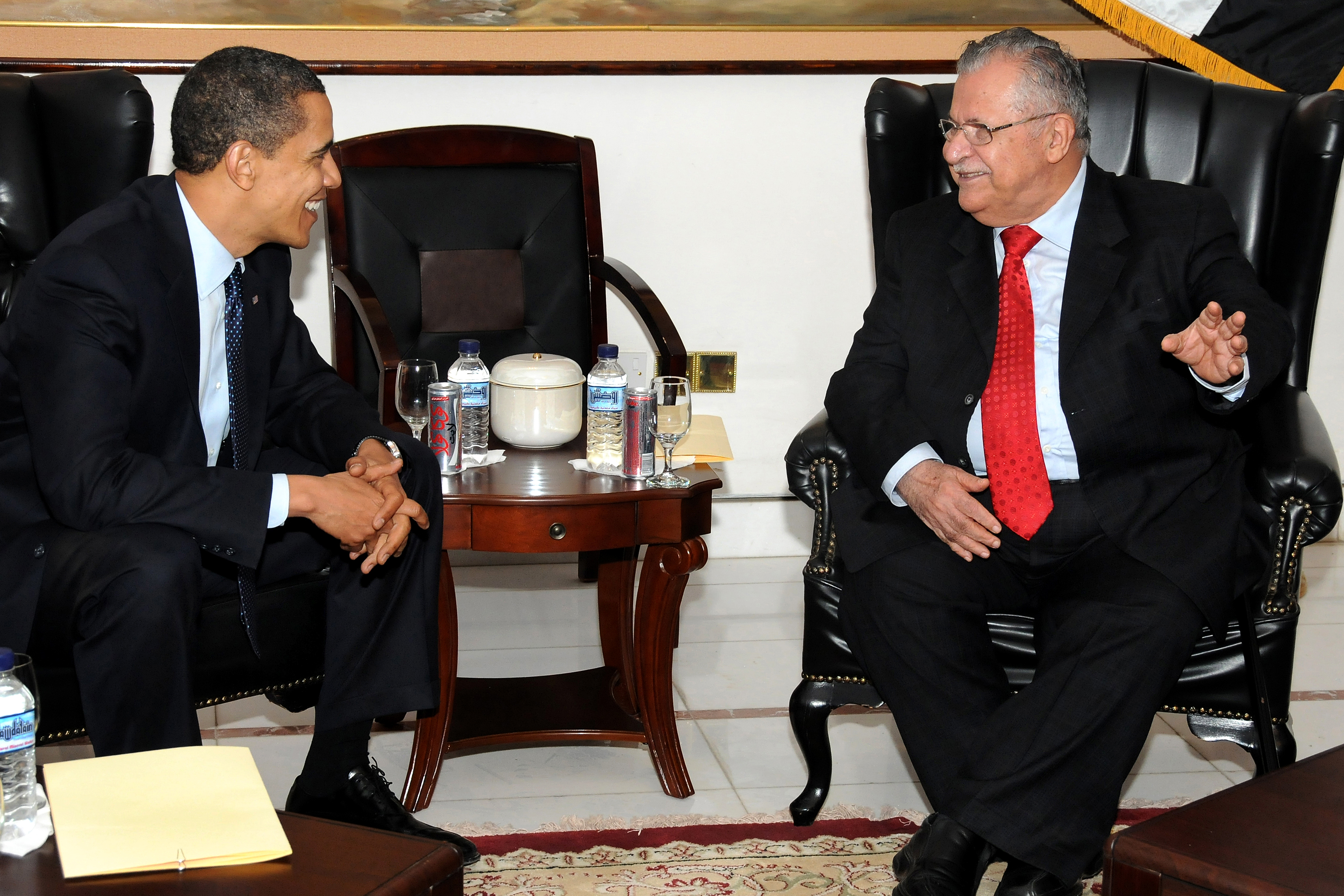 President Barack Obama and Iraqi President Jalal Talabani discuss the success of the U.S.-Iraq security agreement and the growing diplomatic ties between the two countries during a visit to Camp Victory, Iraq, April 7, 2009.